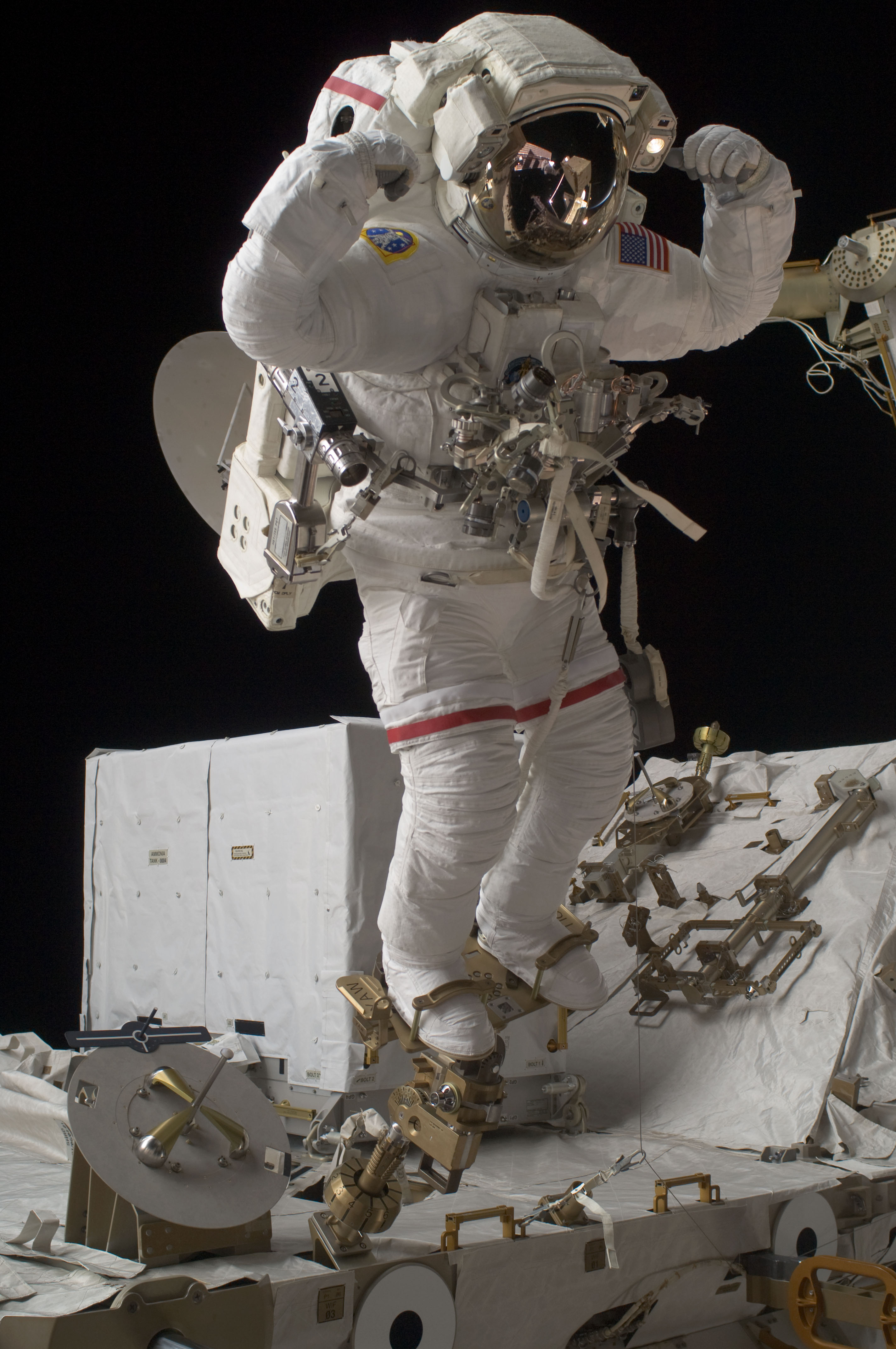 NASA astronaut John "Danny" Olivas, STS-128 mission specialist, participates in the mission's second session of extravehicular activity (EVA) as construction and maintenance continue on the International Space Station. During the six-hour, 39-minute spacewalk, Olivas and European Space Agency astronaut Christer Fuglesang (out of frame), mission specialist, installed the new Ammonia Tank Assembly on the Port 1 Truss and stowed the empty tank assembly into the Space Shuttle Discovery's cargo bay.